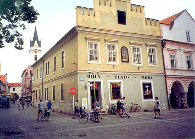 The Vratislav‘s House at 1999